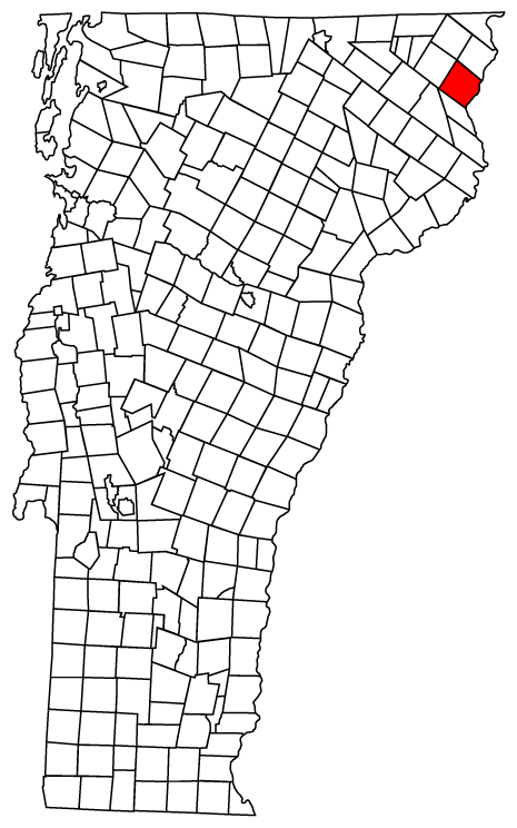 Map of Vermont towns with Bloomfield highlighted